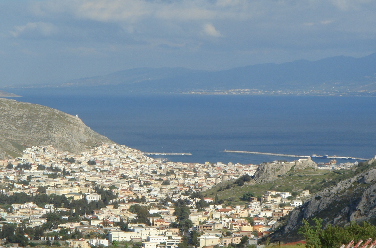 Pothia (Kalymnos port and capital), Chrysoheria castle to right, Kos island in the background, view from Argos